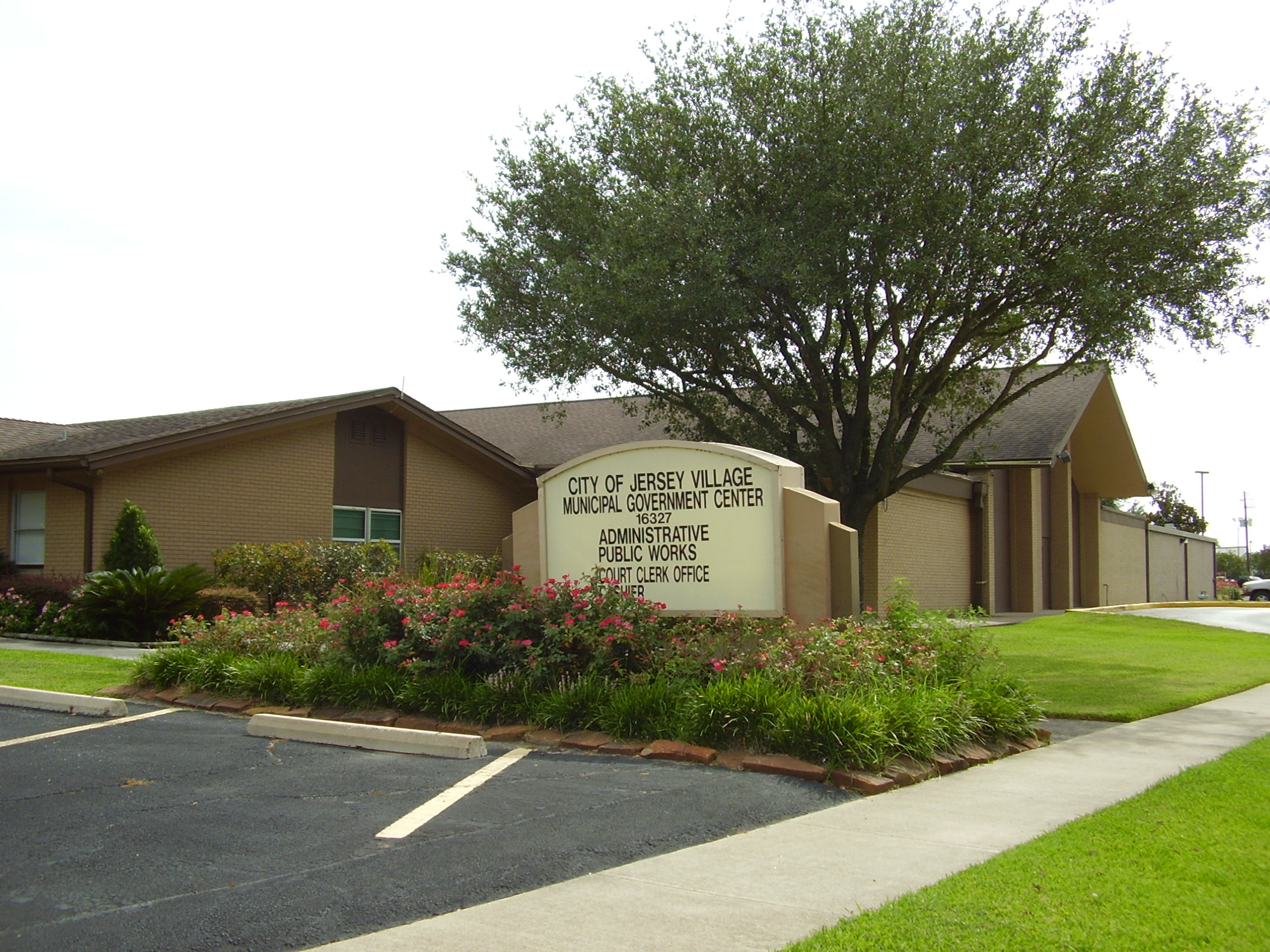 Jersey Village, Texas Municipal Government Center